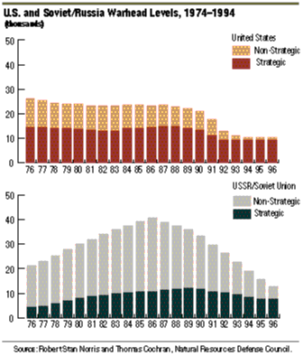 U. S. and USSR (now Russia) warhead levels, 1974–1994.